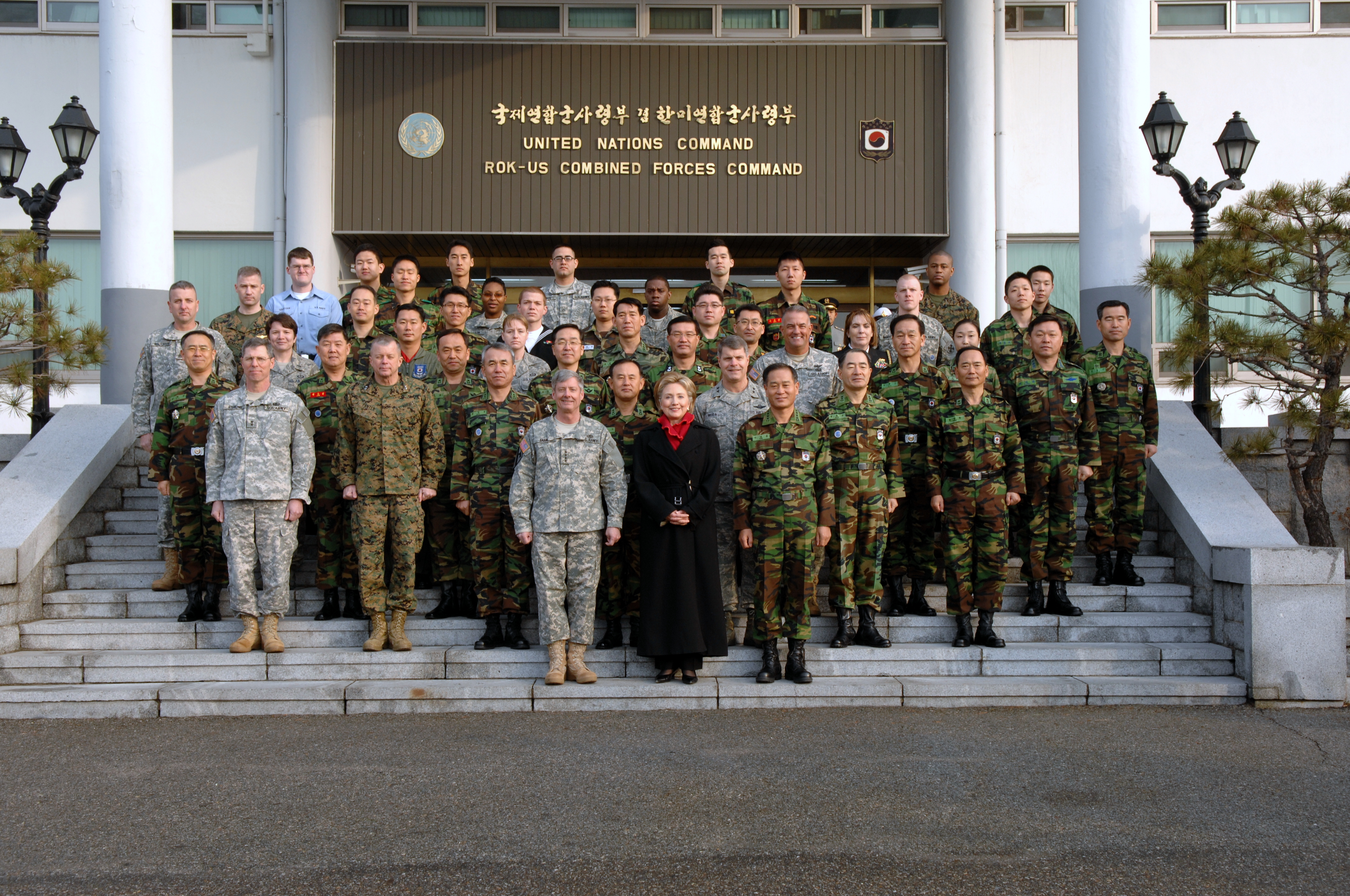 In her first official trip overseas as Secretary of State, Hillary Rodham Clinton visited CFC’s own White House. Secretary Clinton was welcomed by General Walter Sharp, Commander, UNC/CFC/USFK and General Lee Sung-chool his CFC deputy. These images are cleared for release and are considered in the public domain. Request credit be given the individual photographer.